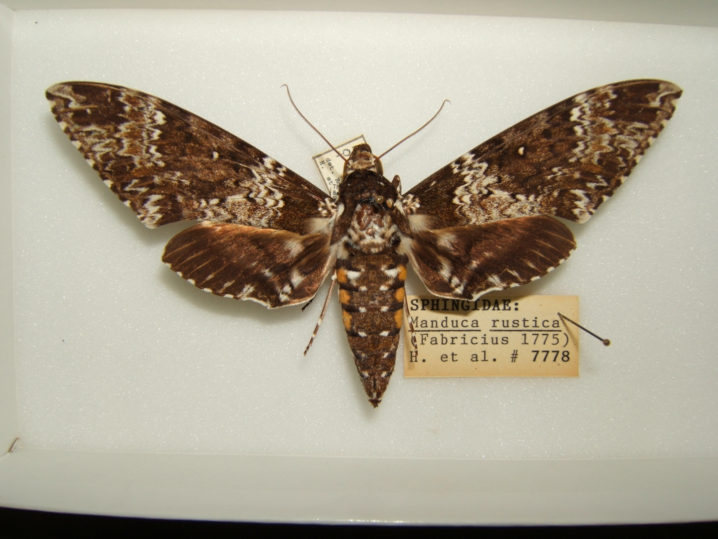 Manduca rustica adult female taken by Shawn Hanrahan at the Texas A&M University Insect Collection in College Station, Texas.